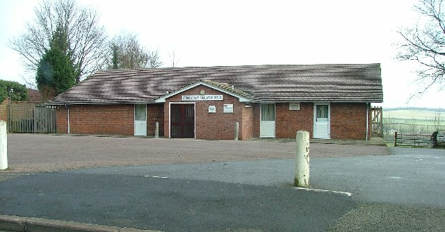 Streatley Village Hall. A Hall. In a village.